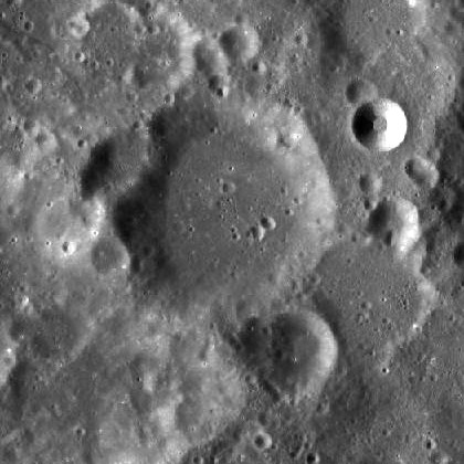 Purkyne lunar crater - LROC image